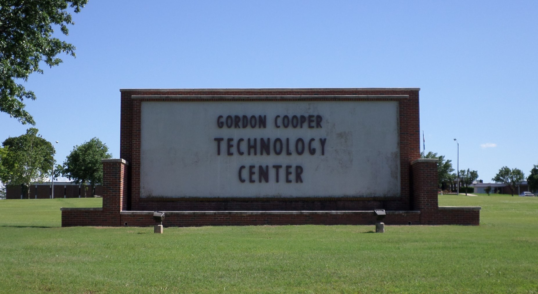 The sign on the north side of the Gordon Cooper Technology Center, located at 1 John C Bruton Dr, Shawnee, OK